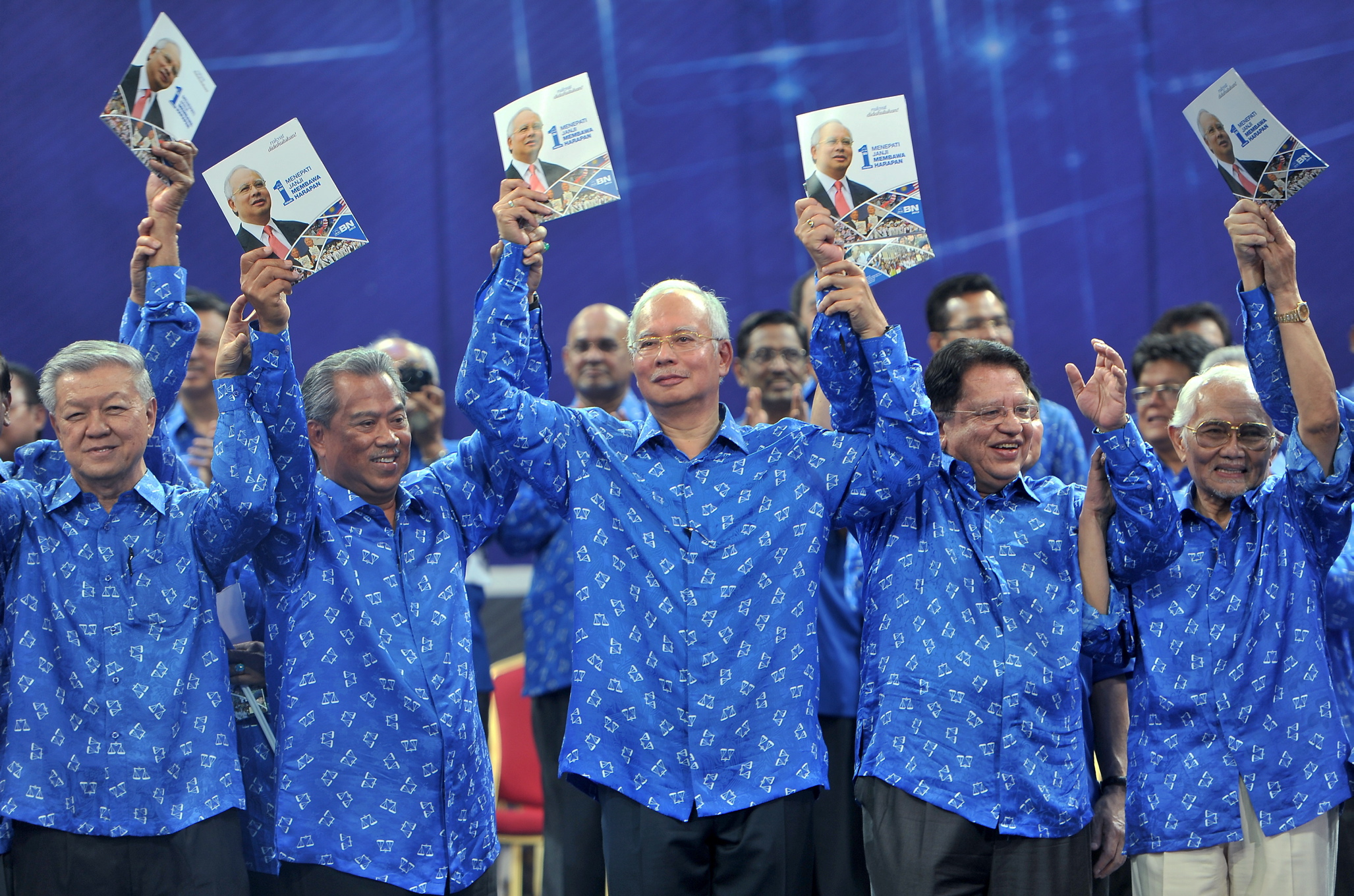 Kuala Lumpur, 07/04/2013. (C) BN chairman Datuk Seri Najib Tun Razak holds a copy of his coalition's election manifesto ahead of upcoming polls during a Barisan Nasional, rally at a stadium in Bukit Jalil. pix Firdaus Latif